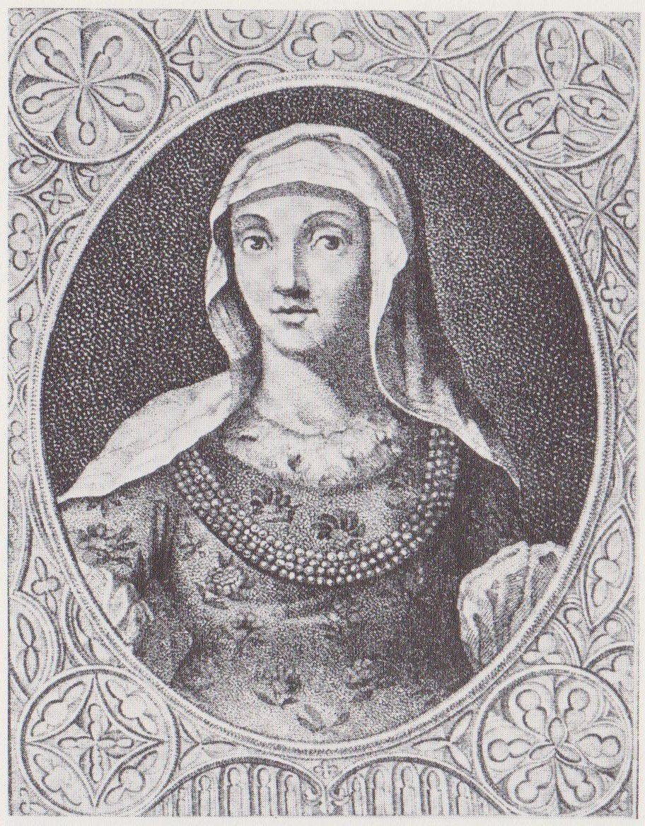 Margaret, Countess of Tyrol (1318-1369), the last Countess of Tyrol from the Meinhardiner dynasty of Görz